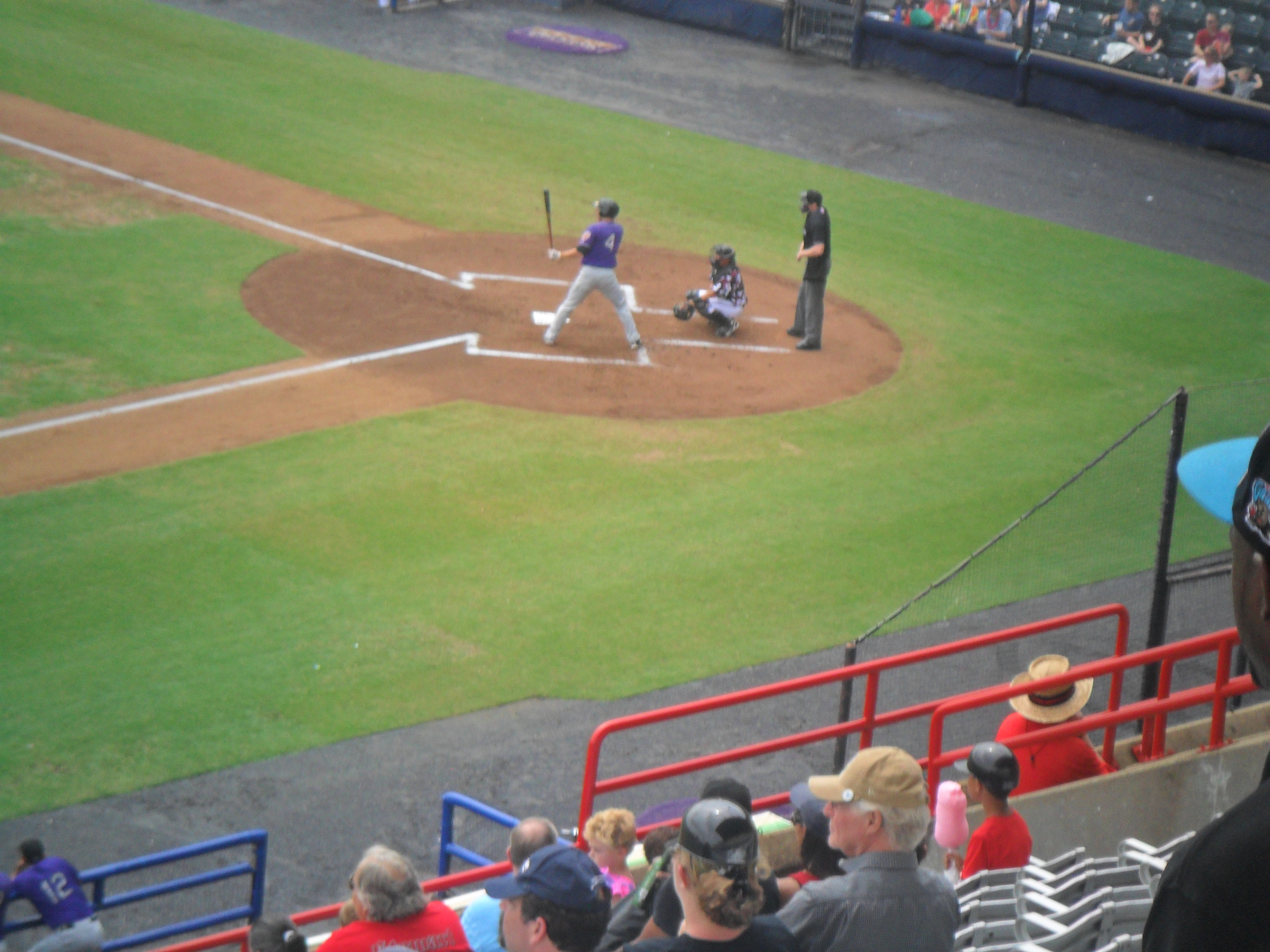 Ryan Rohlinger, Akron Aeros vs. Richmond Flying Squirrels, September 1, 2012